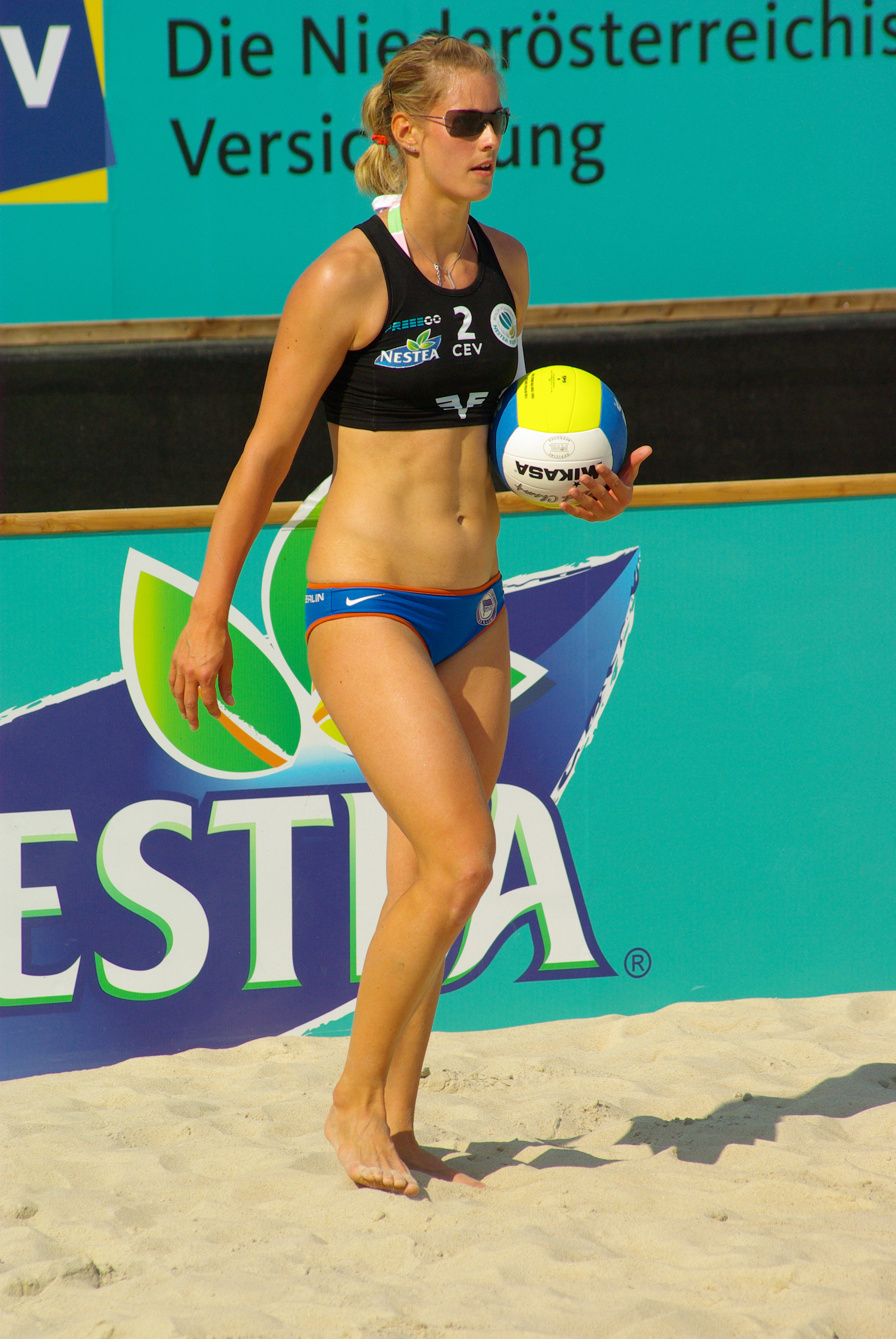 German Beach volleyball player Sara Goller at the European Championship Tour 2008 Austrian Masters in St. Pölten.